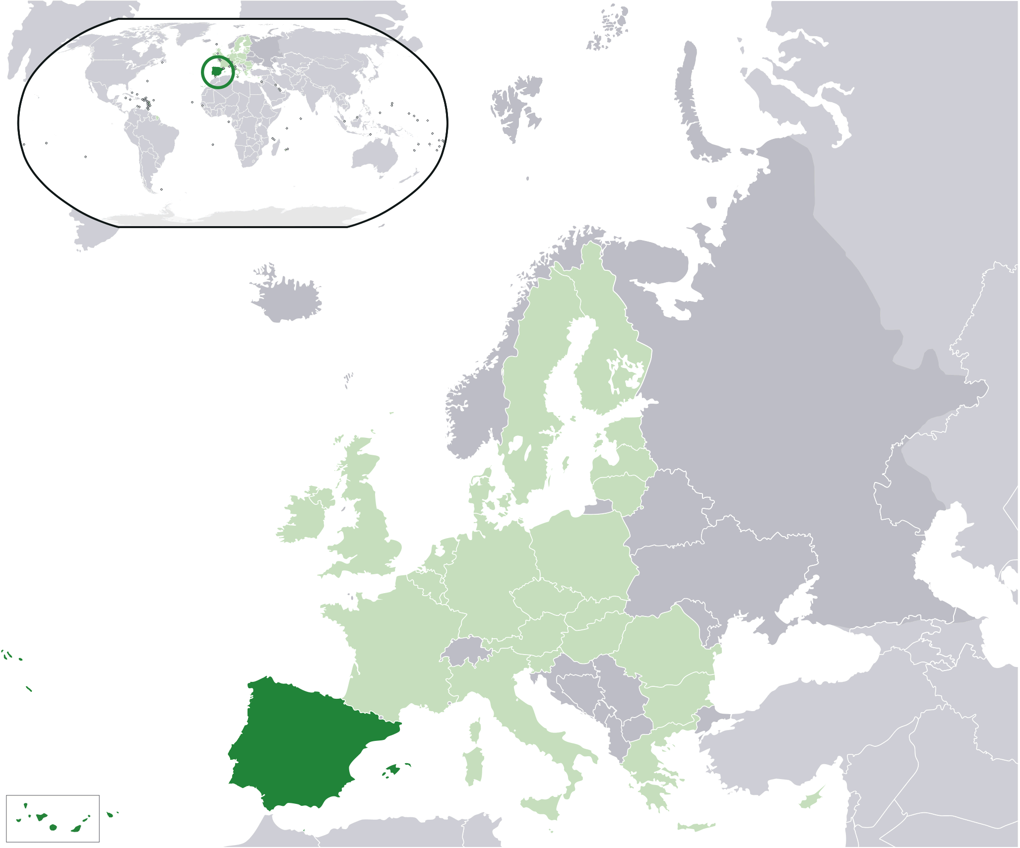 Location map: Iberia (dark green) / European Union (light green) / Europe (dark grey); inspired by and consistent with general country locator maps by User:João P. M. Lima